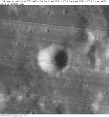 Crile lunar crater - Lunar Orbiter -IV image LO-IV-066H